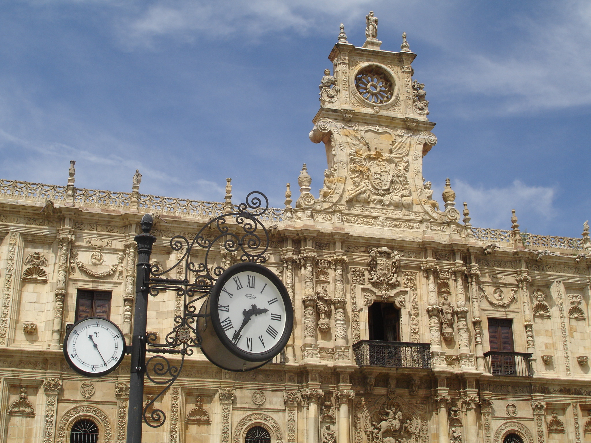 Convento de San Marcos (León, Spain).